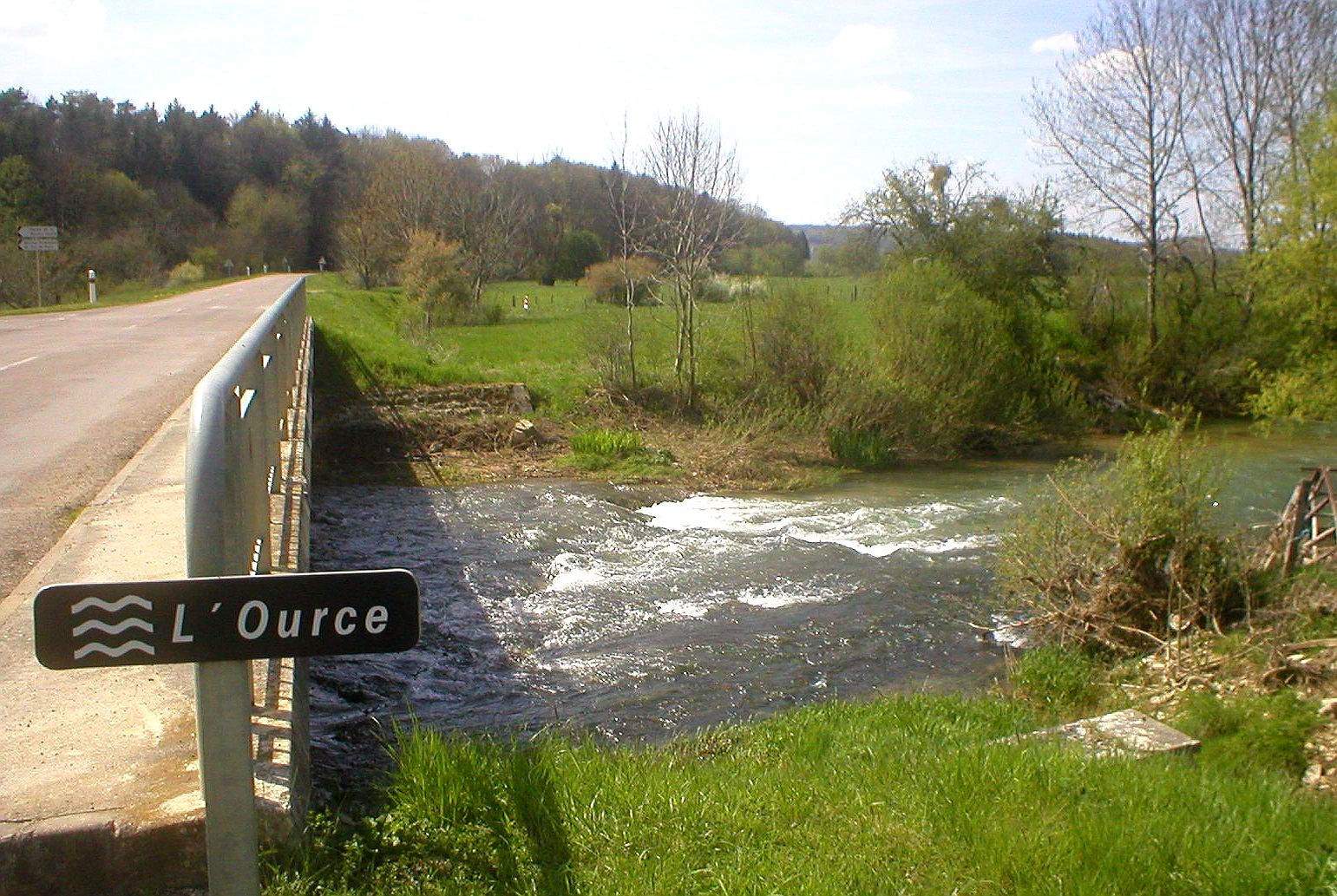 View of the river "Ource" in Autricourt (Côte d'Or) self made picture (mai 2006) Siren-Com 12:54, 3 May 2006 (UTC)